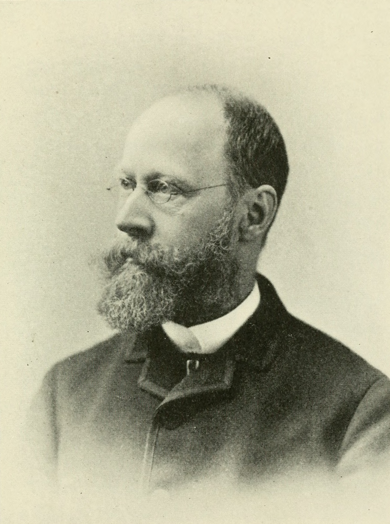 Title: The botanists of Philadelphia and their work Identifier: botanistsofphil00hars Year: 1899 (1890s) Authors: Harshberger, John W. (John William), 1869-1929 Subjects: Botanists -- United States; Botany -- History; Philadelphia (Pa. ) -- Biography Publisher: Philadelphia [Press of T. C. Davis] Text Appearing Before Image: ' Text Appearing After Image: CHAKLES SCHAFFEK.